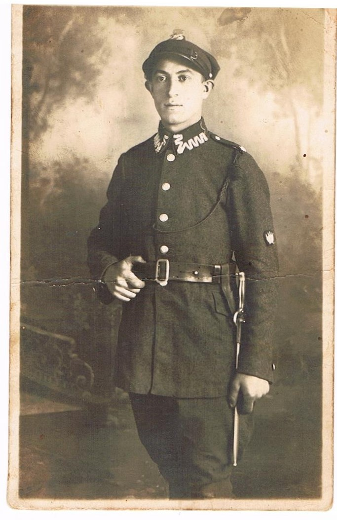 A picture of a soldier of the 40th Children of Lwow Infantry Regiments, taken on 07th July 1929